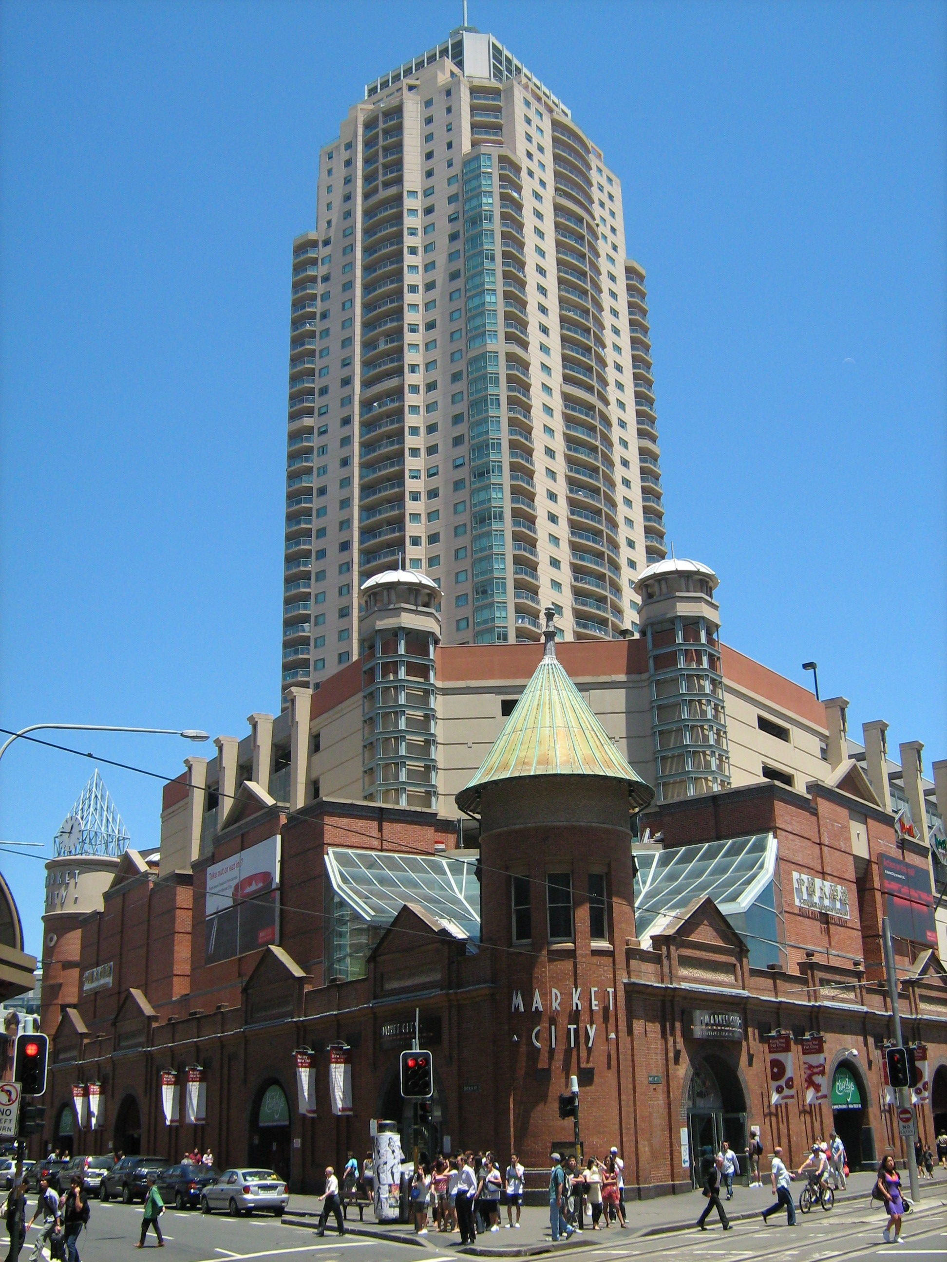 Market City, Haymarket, New South Wales